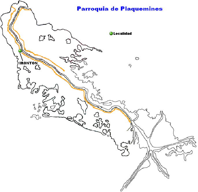 Ironton, Louisiana. Map showing location in Plaquemines Parish.